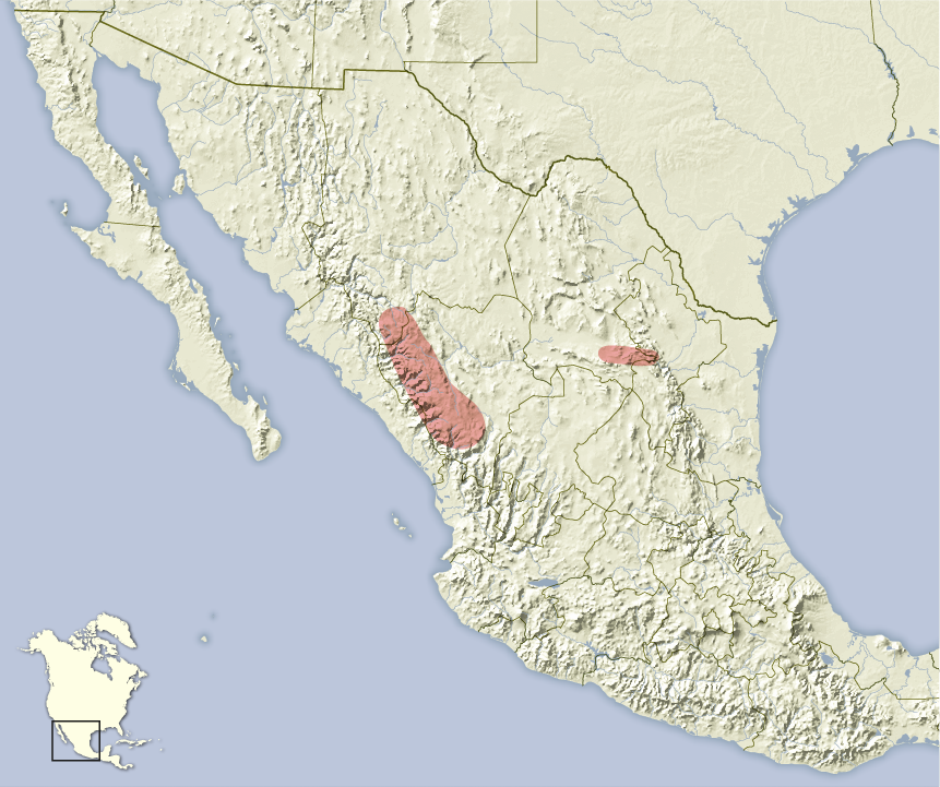 Distribution map of the Durango chipmunk